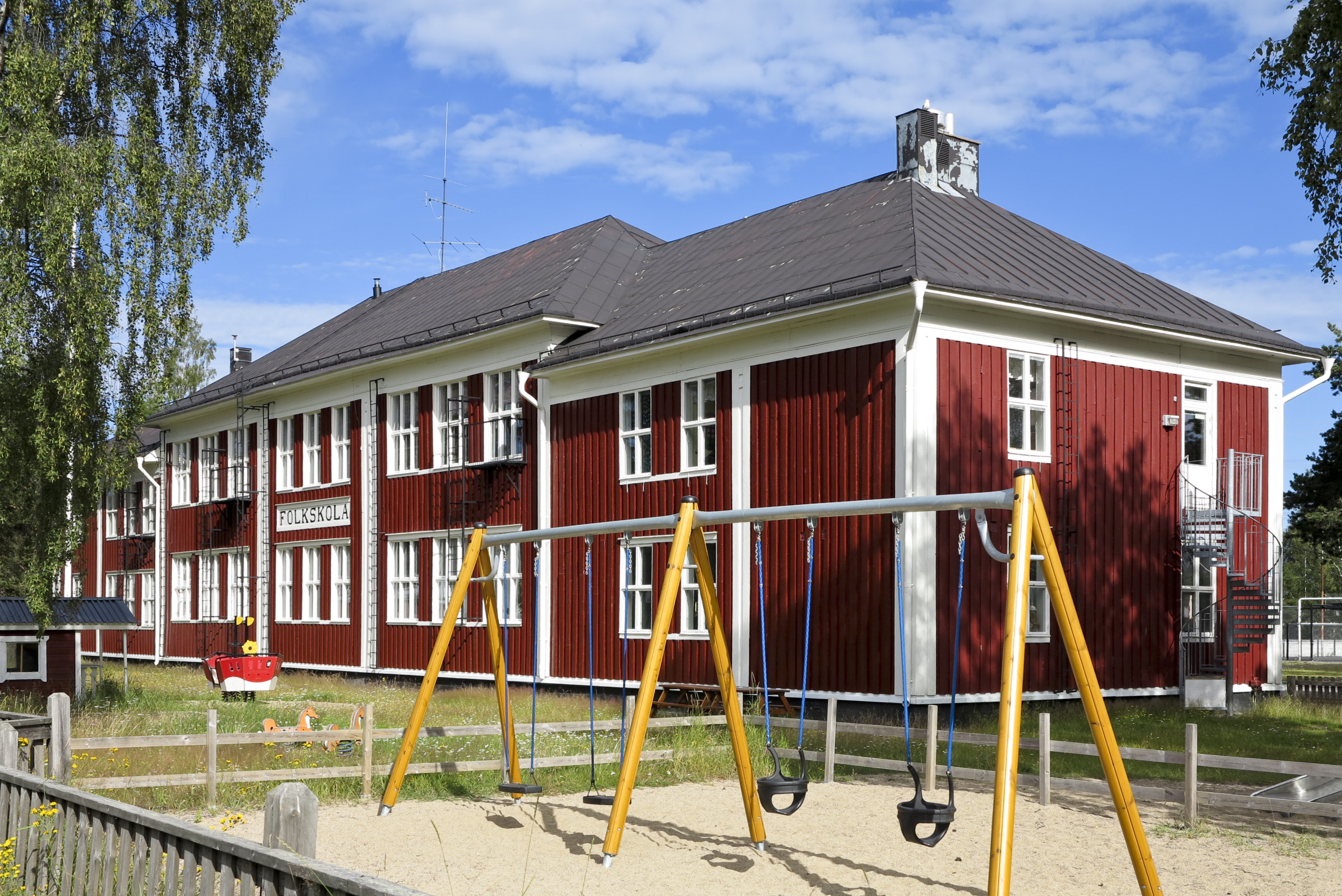 Seskarö Folkskola, Haparanda, Sweden